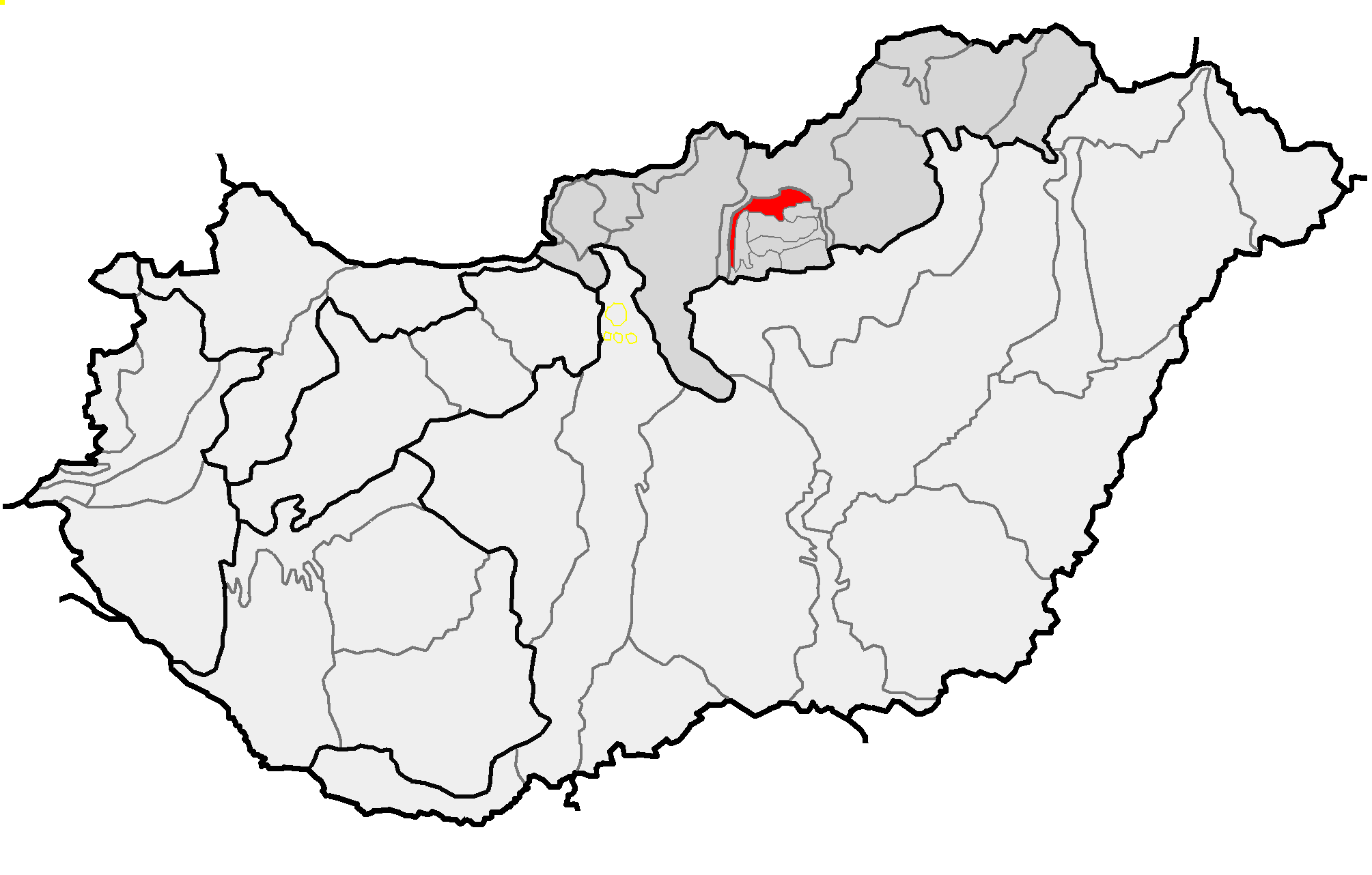 Location of geographical microregion of Mátralába (red) and macroregion of Északi-középhegység (gray) within subdivisions of Hungary.